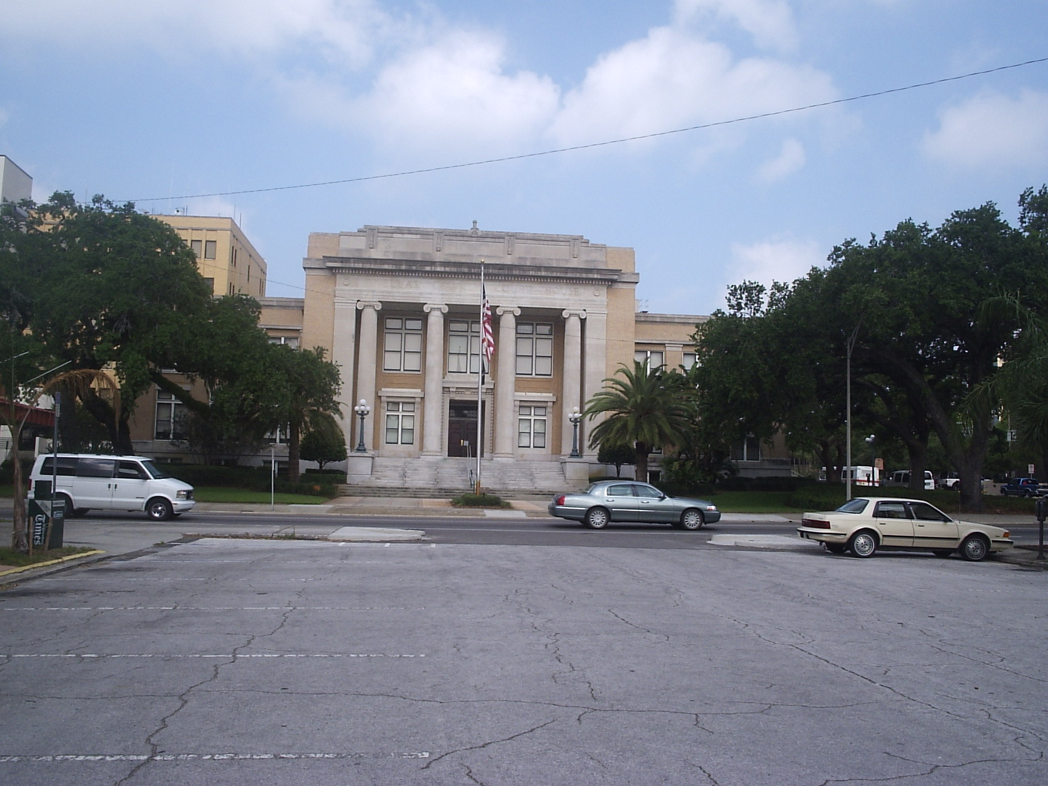 Taken by me, Clearwater, Florida. Pinellas County, Florida Courthouse. Mikereichold 17:57, 10 May 2006 (UTC)